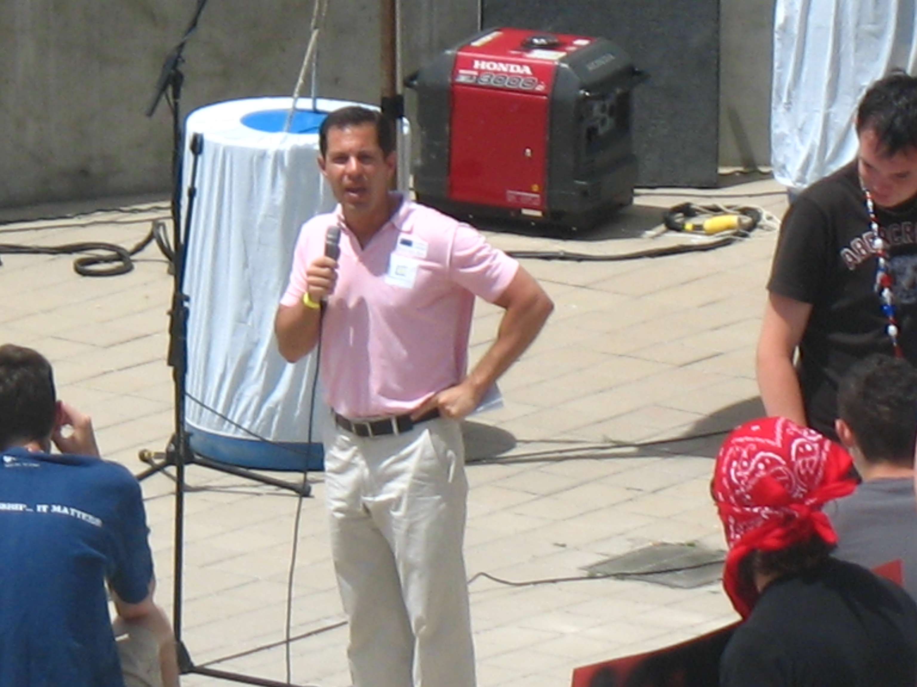 Patrick Guerriero, President of the Log Cabin Republicans, on the Political Stage at the 2006 Utah Pride Fesitval.